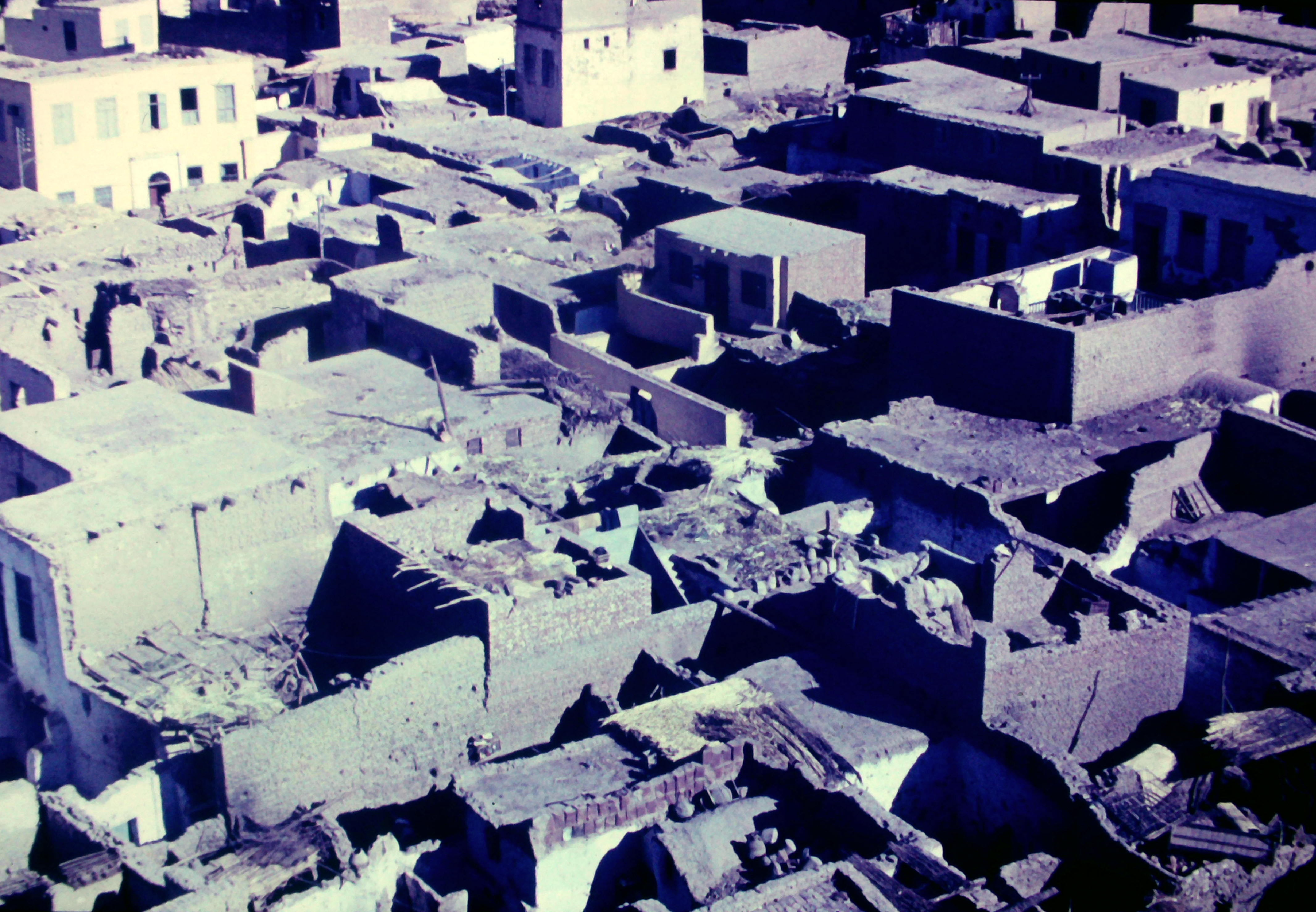 Edfu, the old city